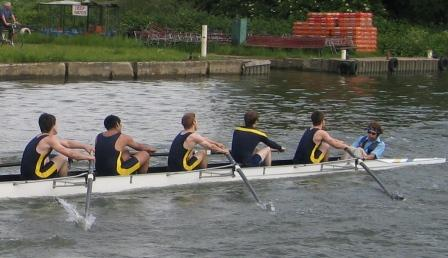 Coxswain (right) with stroke 7th 6th 5th and 4th position rowers, at Summer Eights in Oxford.